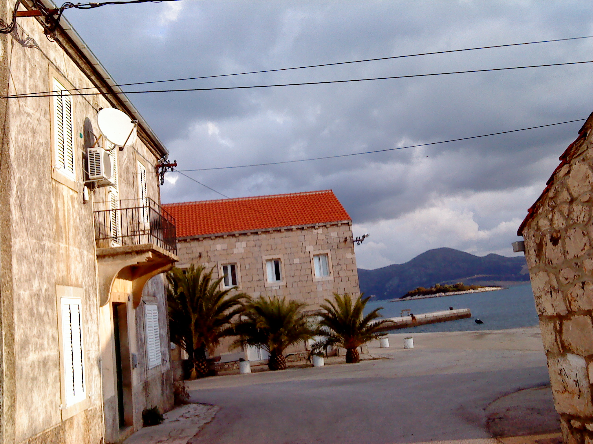 Village of Sreser